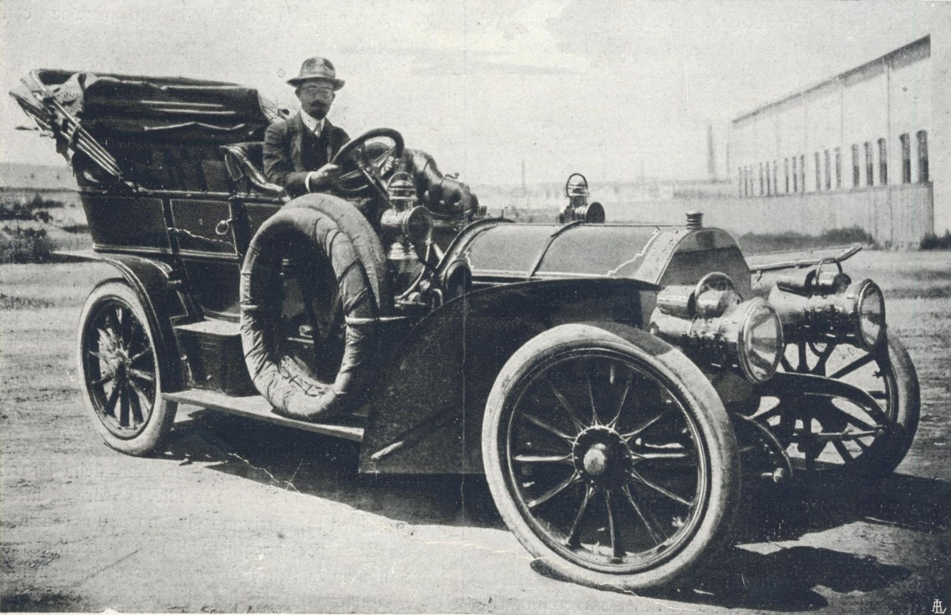 Roberto Züst in 1908